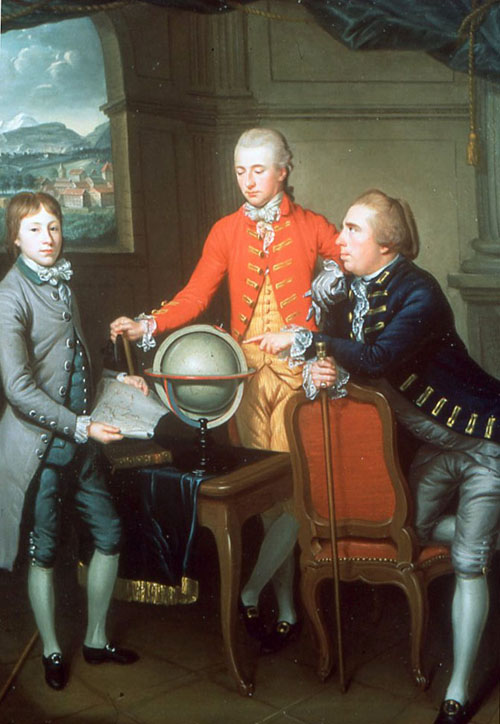 Portrait of Douglas, 8th Duke of Hamilton, on his Grand Tour with his physician Dr John Moore and the latter's son John. Two sitters are full length, point to Great Britain on a globe and look to the Duke. A view of Geneva is in the distance. Provenance: Douglas, 8th Duke of Hamilton, the sitter; John Rushout, 2nd Baron Northwick; Northwick sale, Phillip's 1859; William, 11th Duke of Hamilton and by descent: Hamilton Palace sale, Christie's 1919; Colonel and Mrs Pollen, and by descent; Phillip's, 1991. Acquired with the help of the Art Fund for the National Museums of Scotland in 1992.